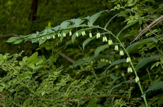 a plant of Polygnatum biflorum